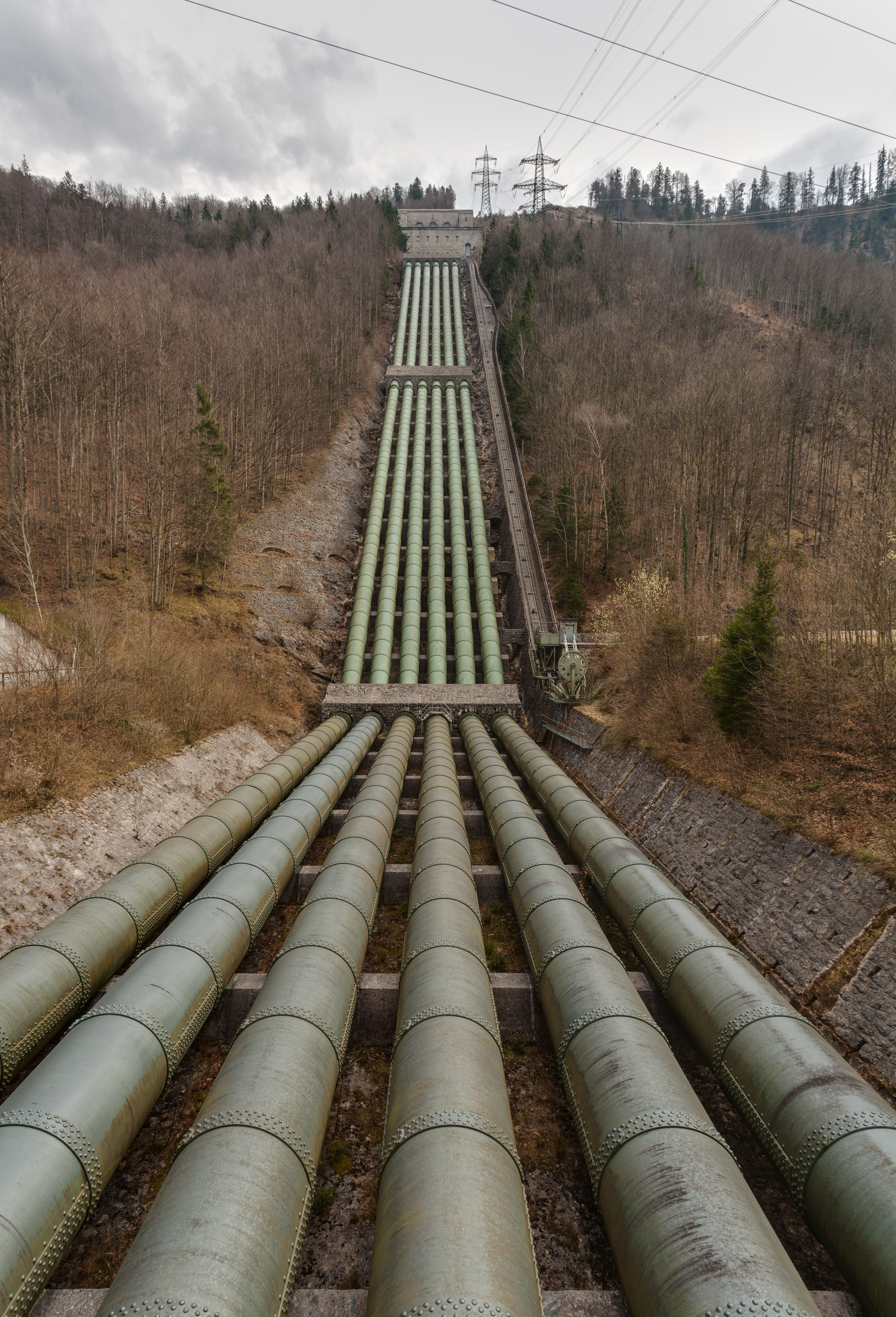 Walchensee hydroelectric power plant, Kochel, Bavaria, Germany